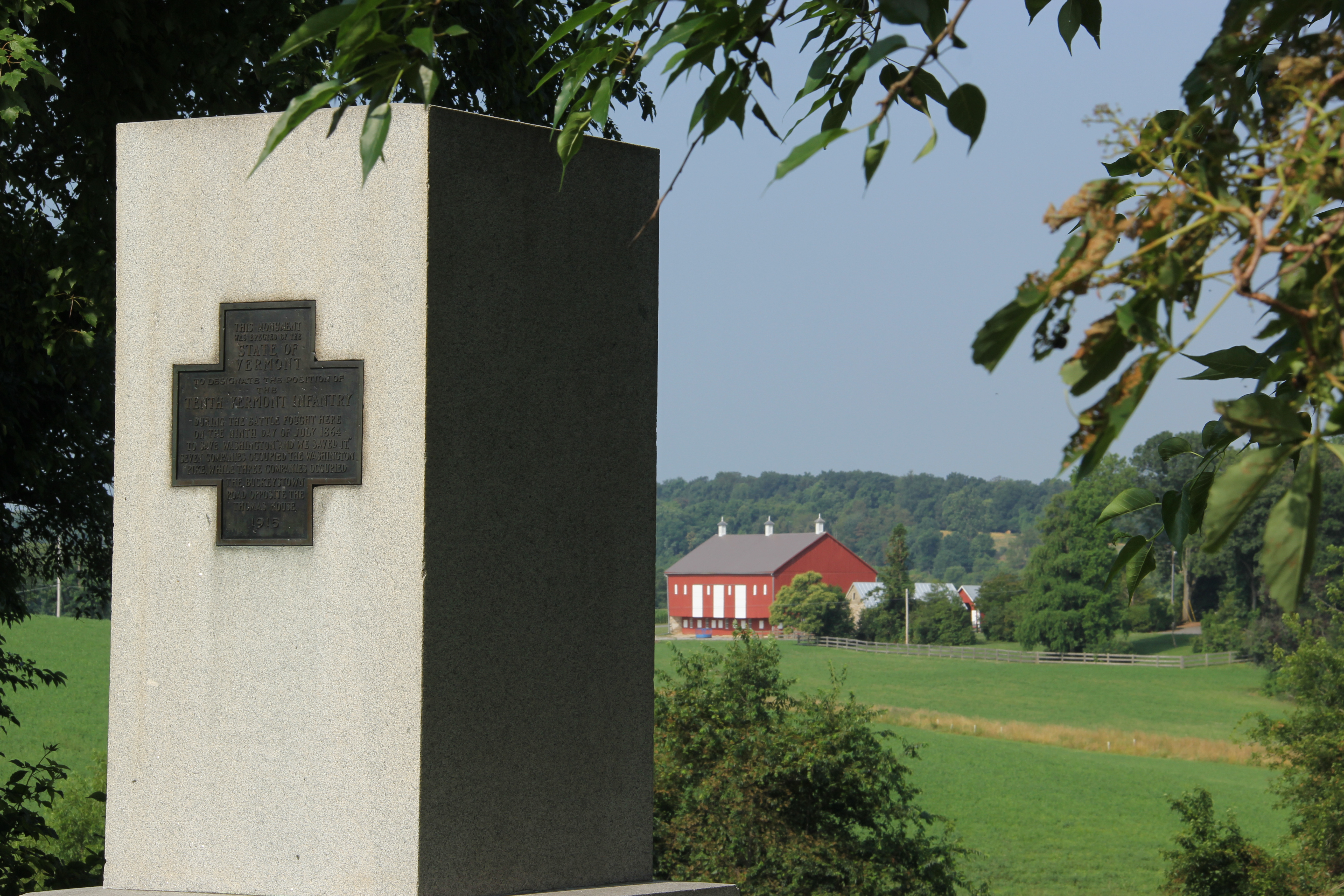 Photo showing a granite monument with the words: This monument was erected by the State of Vermont to designate the position of the Tenth Vermont Infantry during the battle fought here on the ninth day of July 1864" to save Washingotn "And we saved it." Seven companies occupied the Washington Pike while three companies occupied the Buckystown Road opposite the Thomas House. 1915.